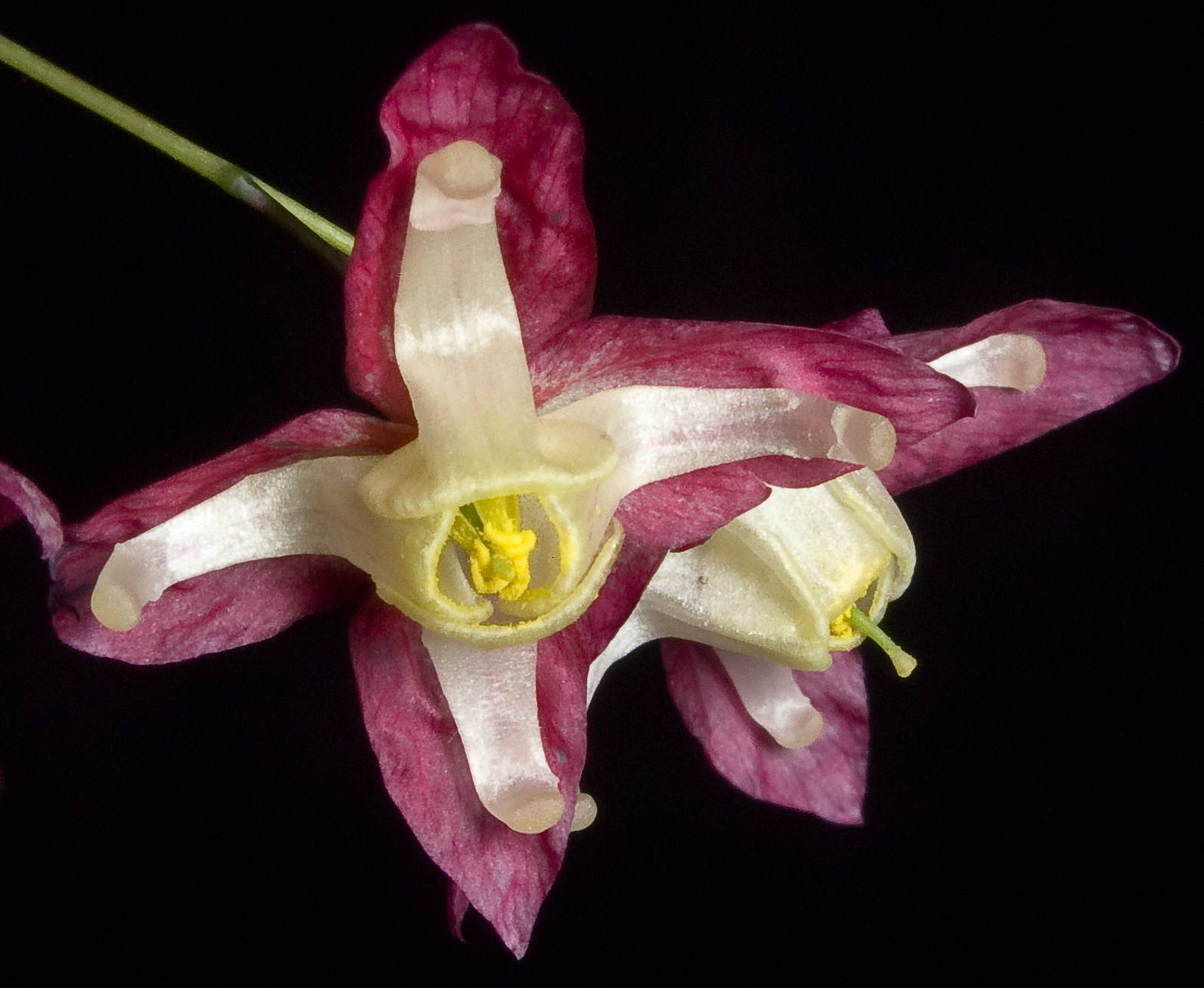 Closeup of the underside of flowers of Epimedium × rubrum